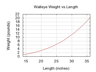 Graph of weight-length relationship for walleye, in English units.